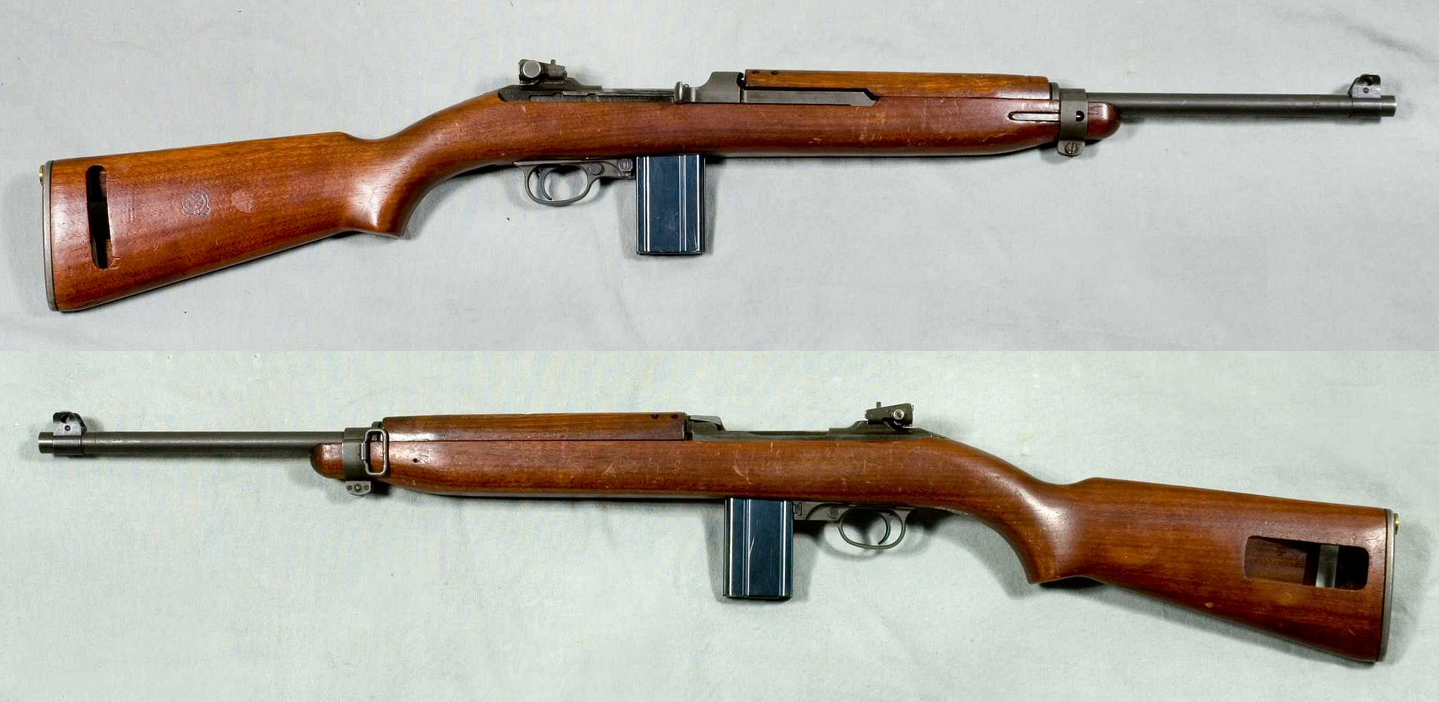 M1 Carbine, USA. Caliber .30 Carbine. From the collections of Armémuseum (Swedish Army Museum), Stockholm